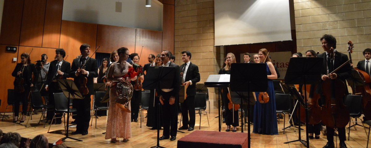 Paolo Olmi and Young musician european orchestra